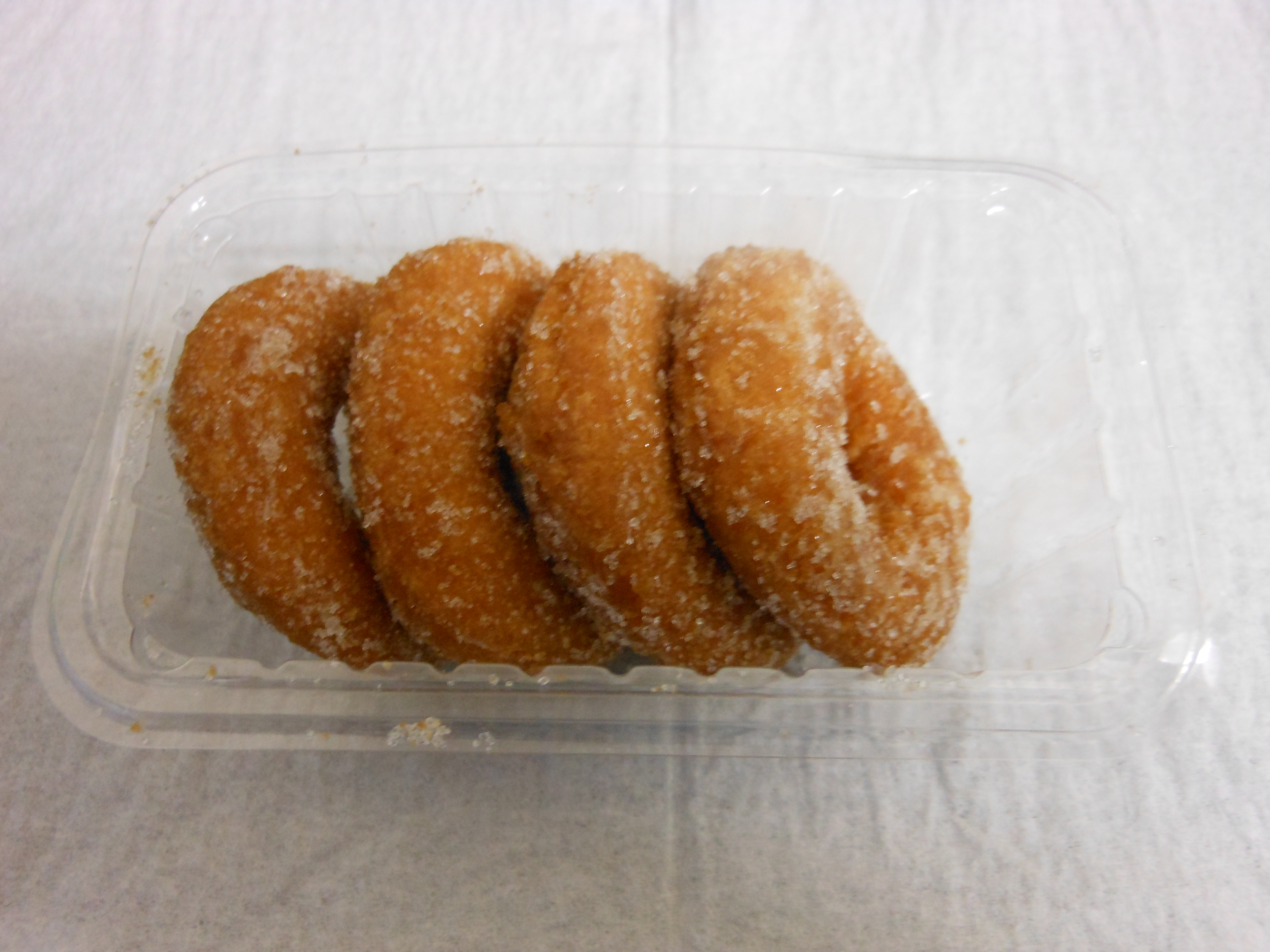 These are young donuts made by MIYATASEIKA corporation in Japan.